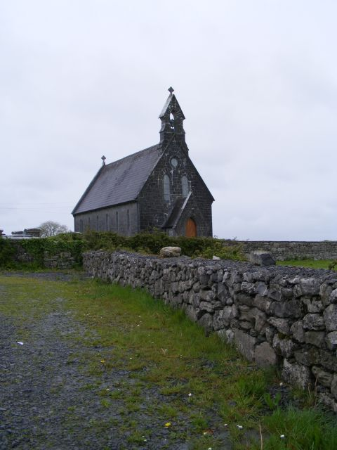 Saint Mochua's Church - Noughaval Townland Dated 1943. The ruin of an older church lies to the east.